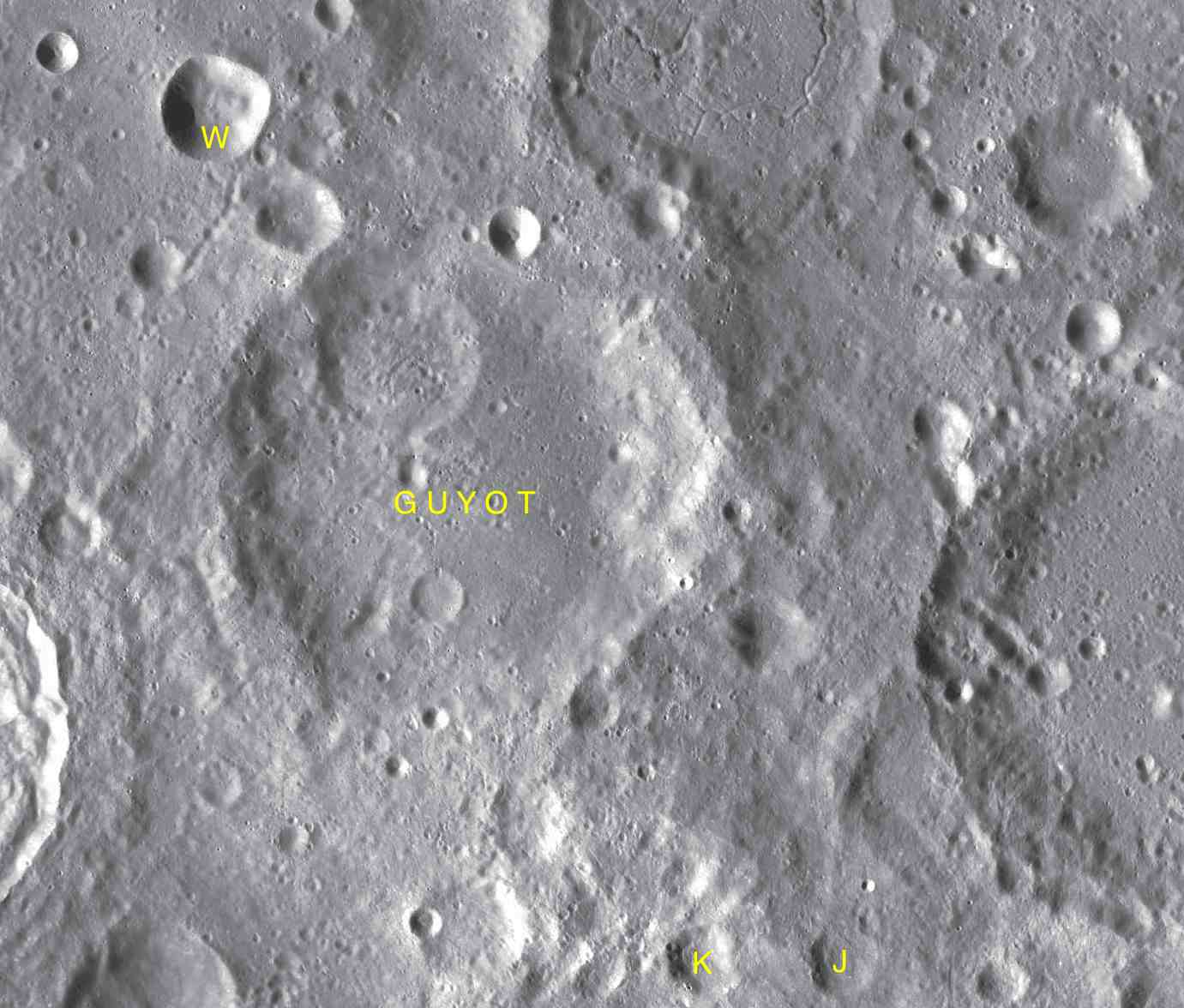 Part of the chart LAC-65 used for the presentation